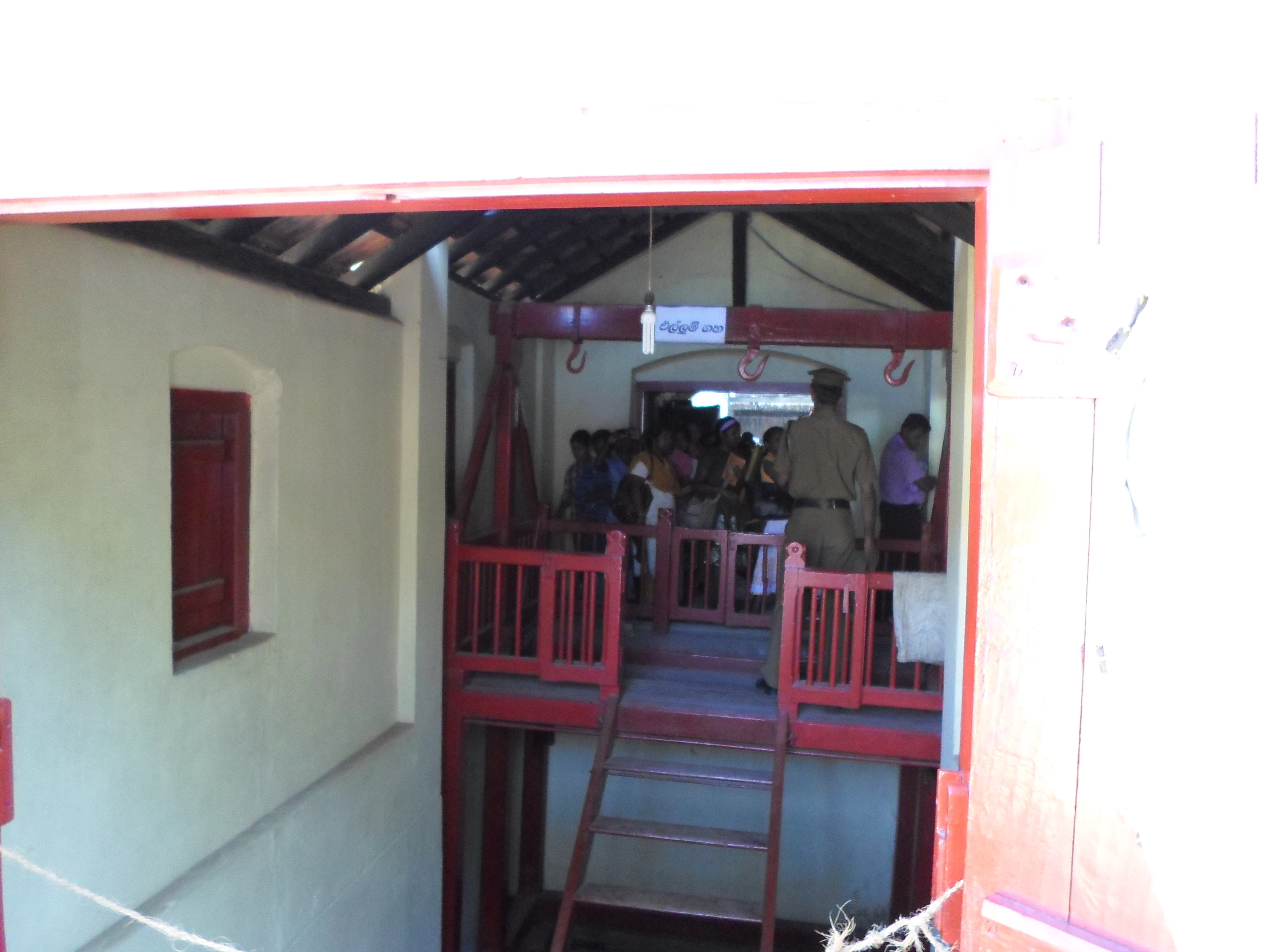 Gallows of Bogambara Prison - Photograph I.